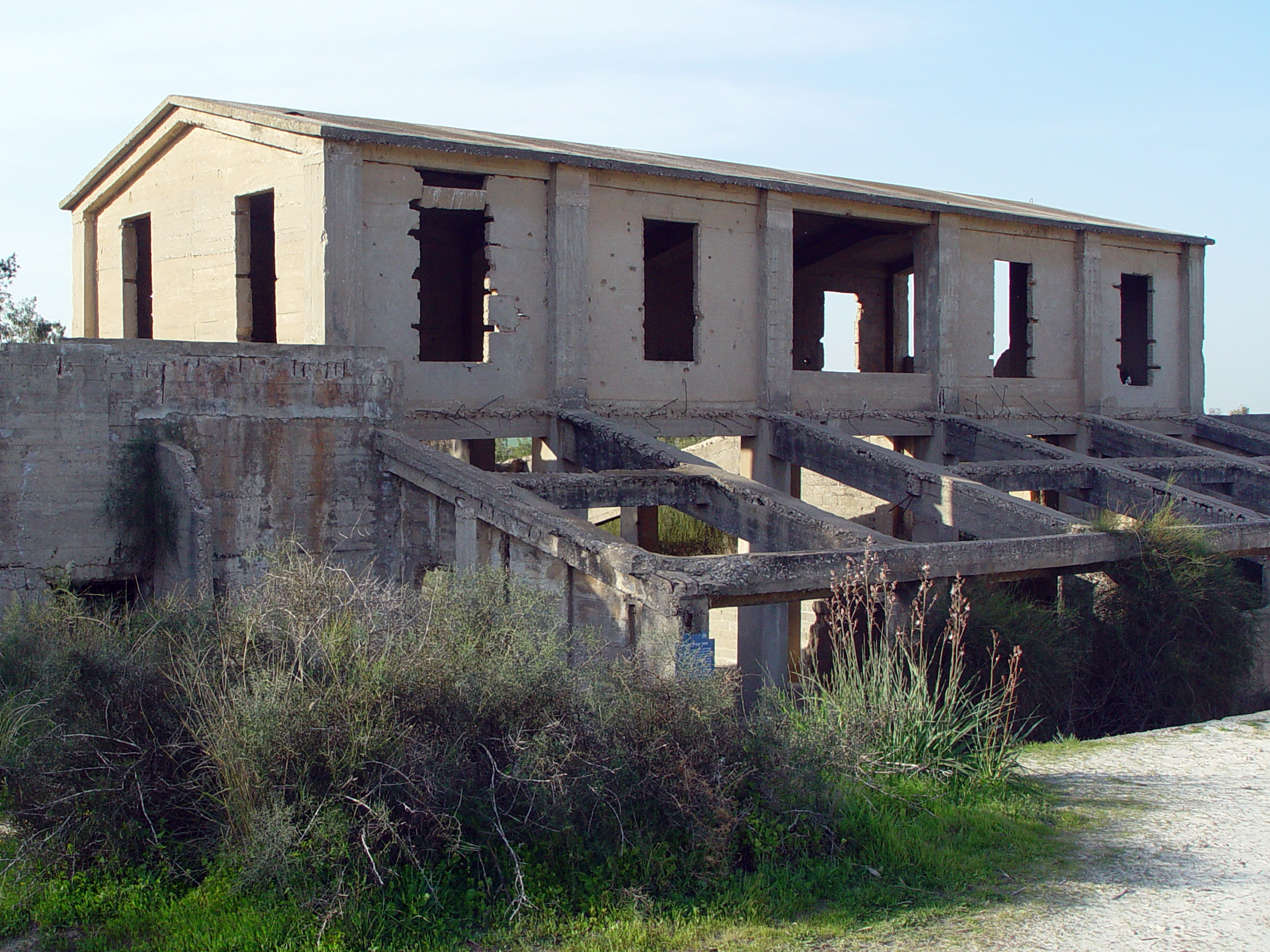 Deserted British sulfur processing plant in Be'eri (Israel)